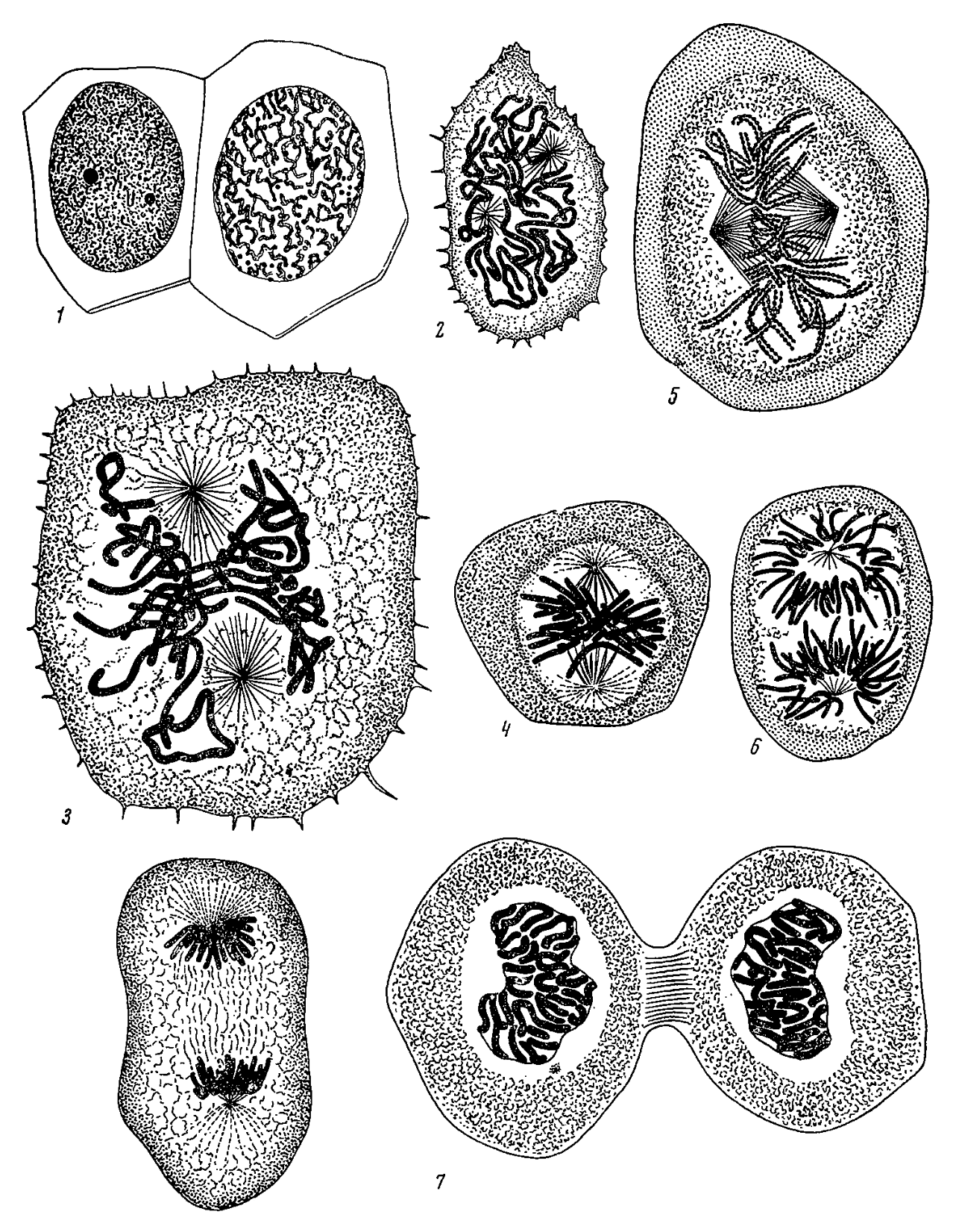 Cell division according to W. Flemming (1882)